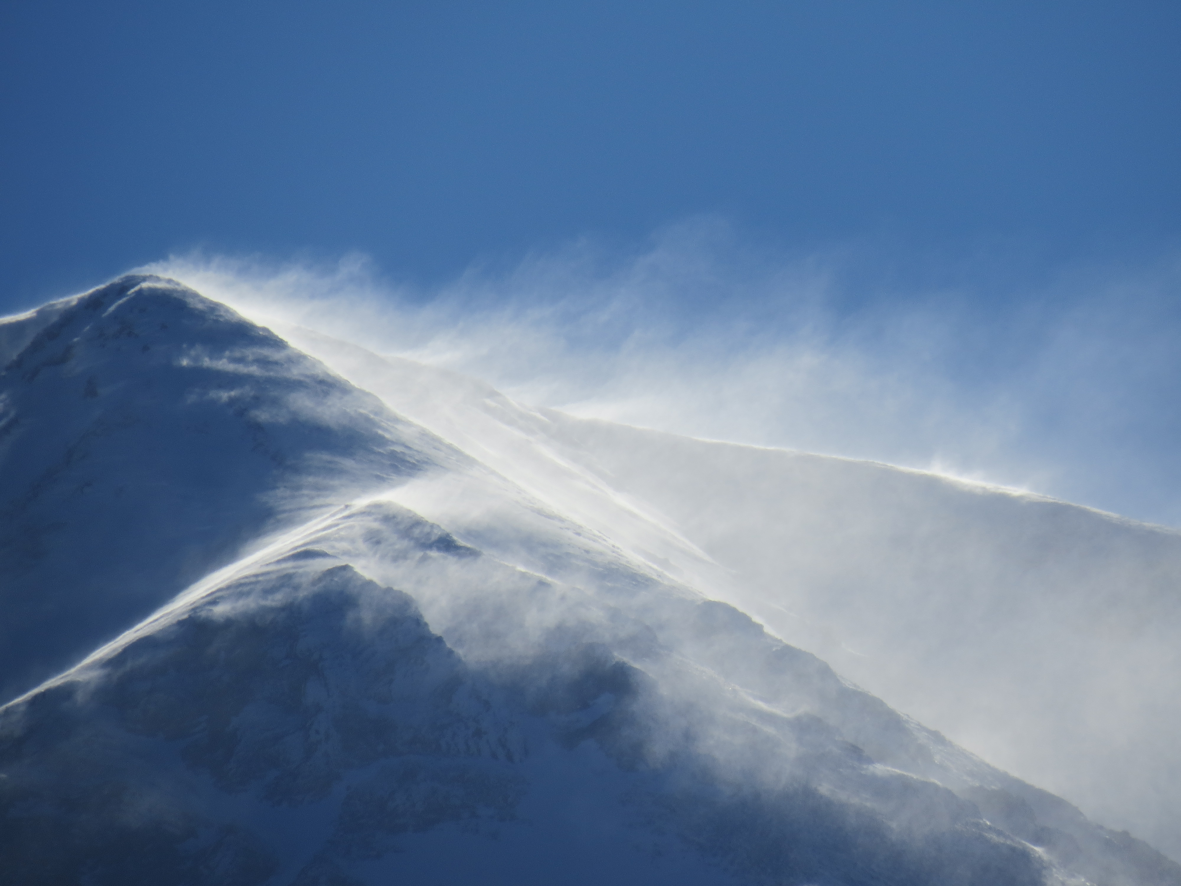 Në majën e Gjallicës shpesh gjatë dimrit fryjnë erërat e forta të veriut duke krijuar stuhi bore.